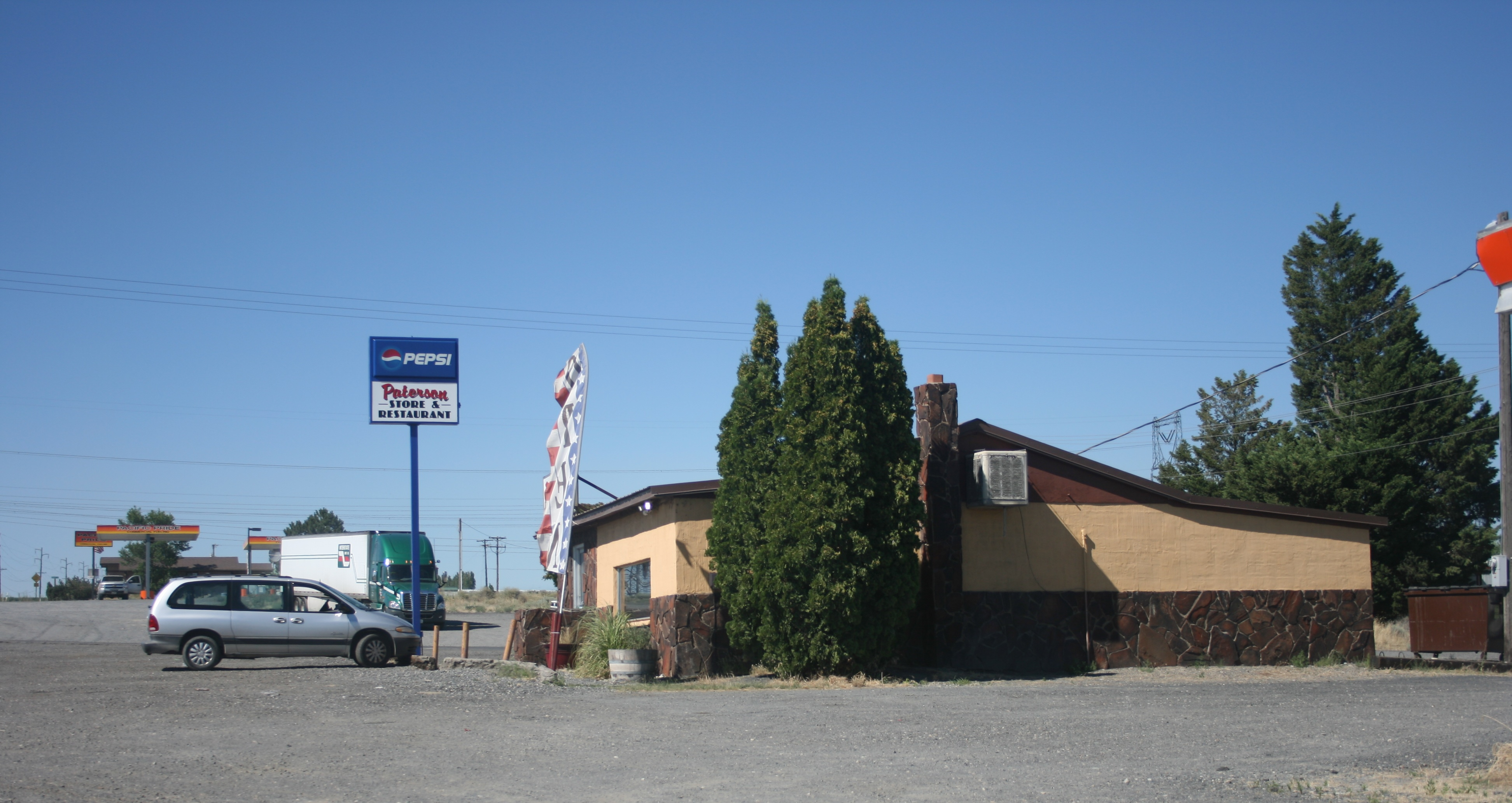 Paterson store and restaurant as seen in July 2013. . Paterson is an unincorporated area in Benton County, Washington.